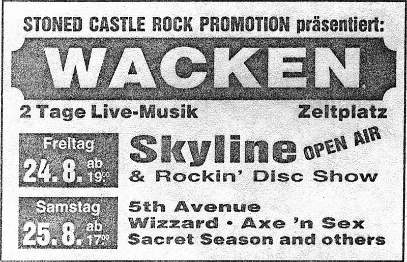 Promotion for Wacken Open Air 1990